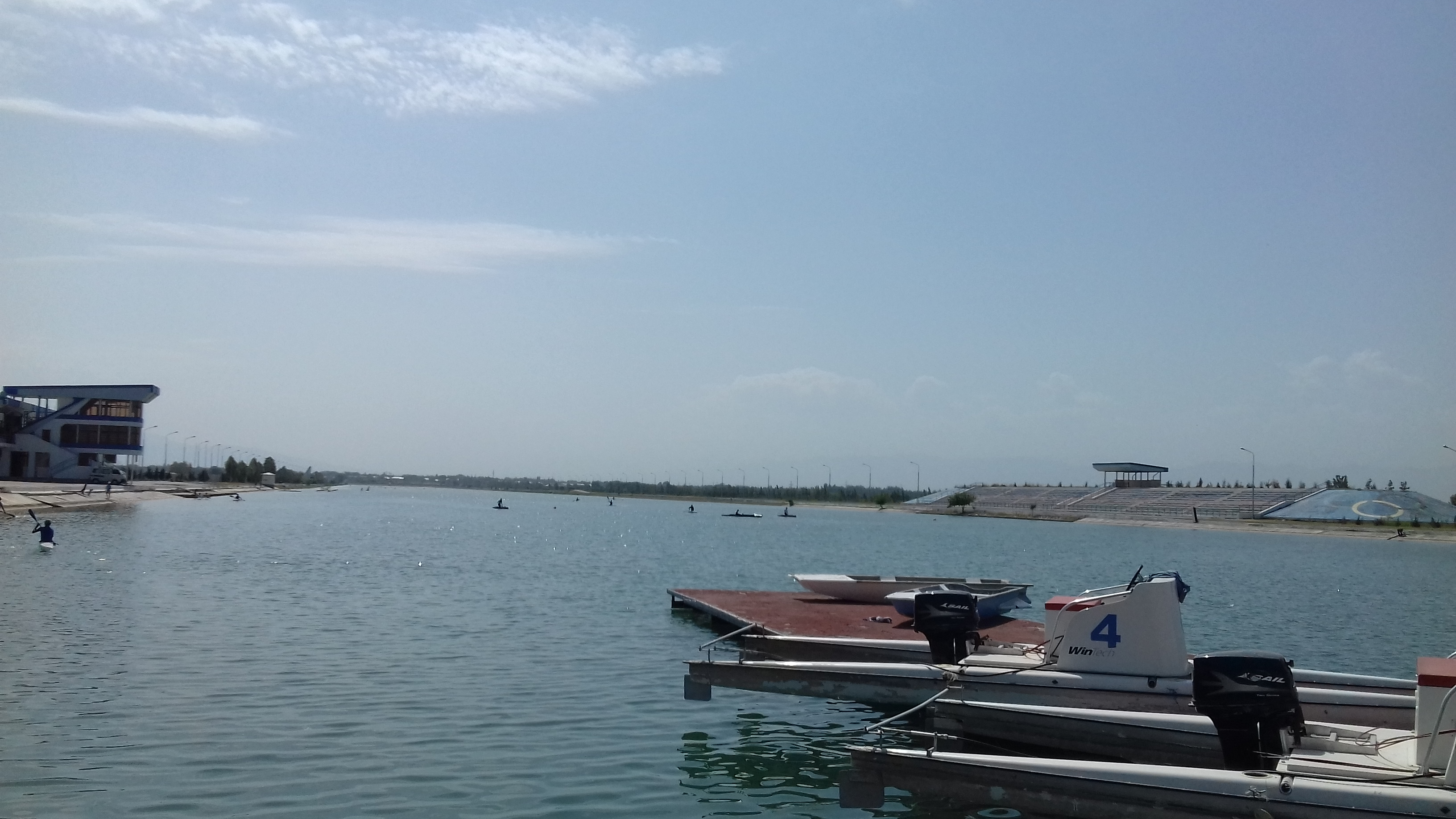 Samarkand Rowing Canal (Uzbekistan)